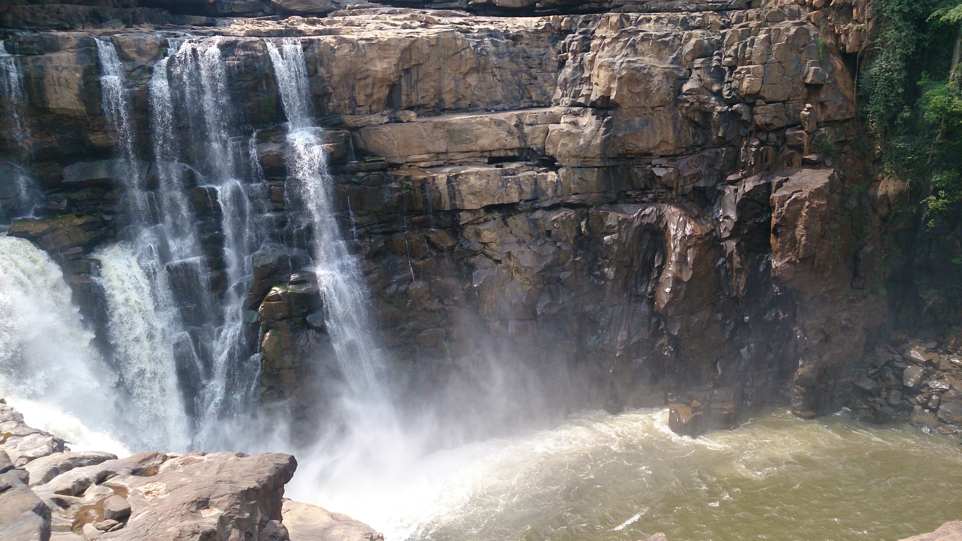 This is the famous Zongo waterfalls far from Capital Kinshasa of DRC. This is an image of Cultural Fashion or Adornment from Democratic Republic of the Congo